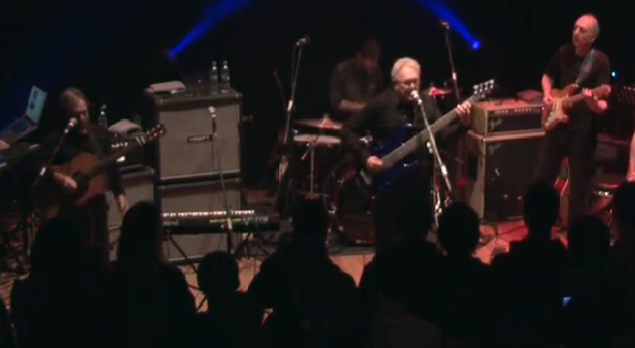 Trevor Horn in 2012 with the Producers